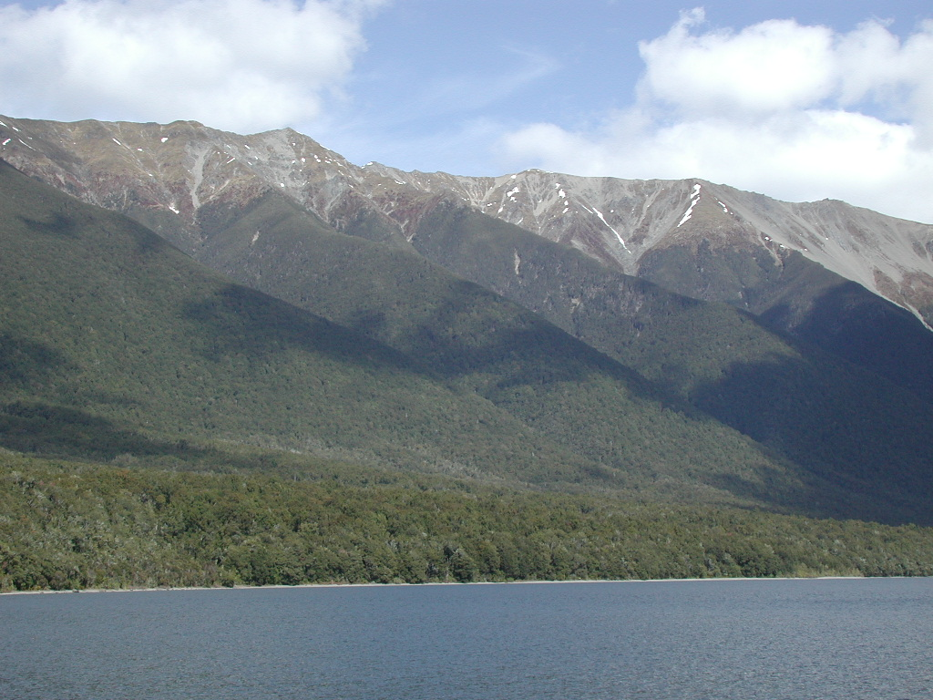 Bush-clad slopes of northern end of St Arnaud Range behind Lake Rotoiti